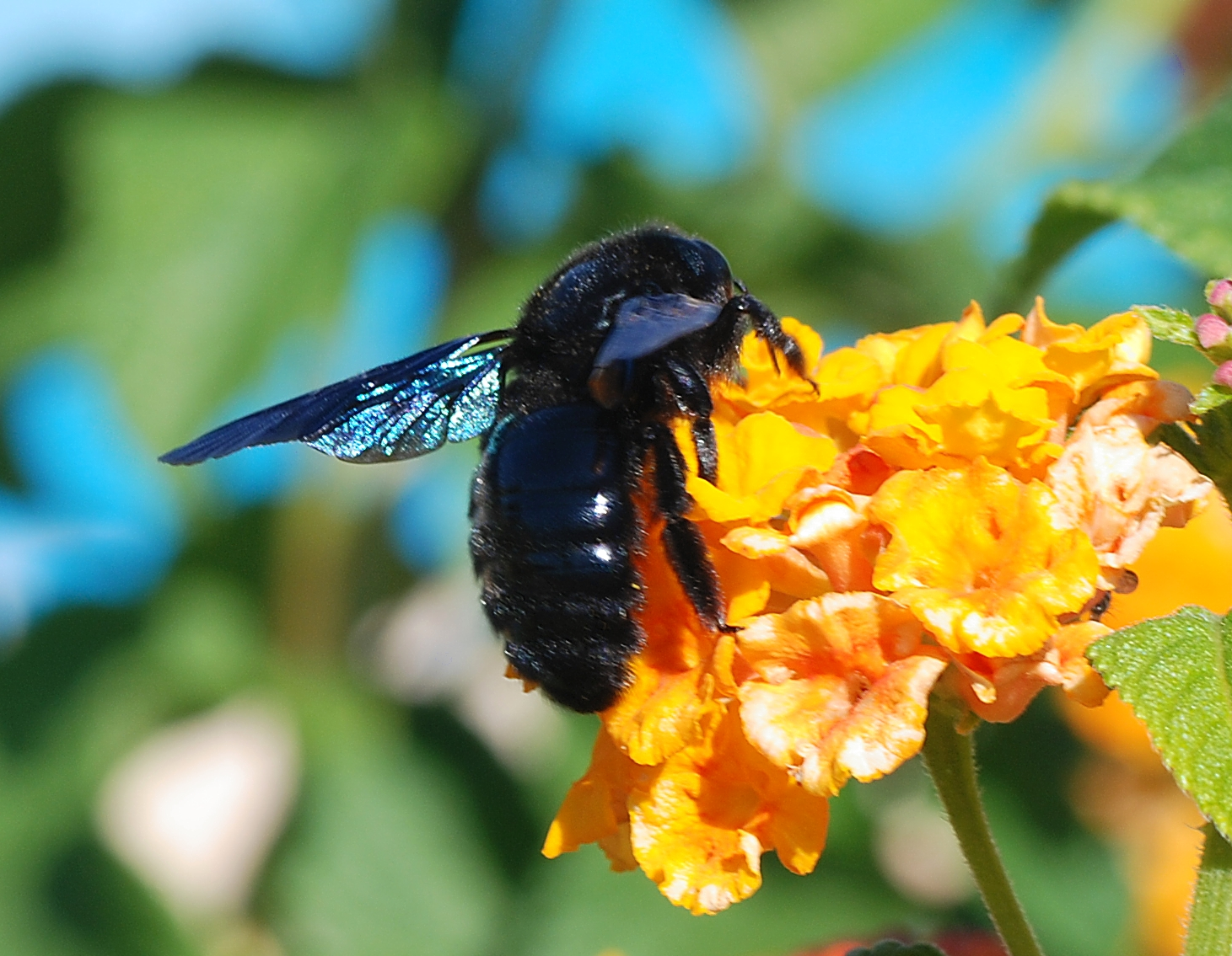 Big black bee (Xylocopa violacea)